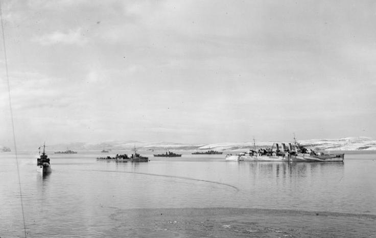 British heavy cruiser HMS NORFOLK with destroyers and merchant ships in a Russian inlet whilst on northern convoy duty. Photograph taken from the cruiser HMS SCYLLA.